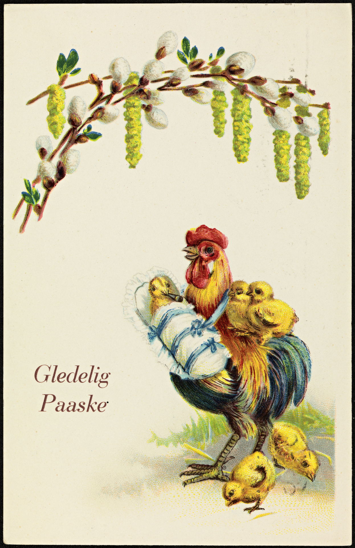 Tittel / Title: Gledelig Paaske / God påske / Happy Easter Motiv / Motif: Postkort. Dato / Date: ca 1928 Kunstner / Artist: ukjent / unknown Utgiver / Publisher: ukjent / unknown Eier / Owner Institution: Nasjonalbiblioteket / National Library of Norway Lenke / Link: Bildesignatur / Image Number: blds_04809